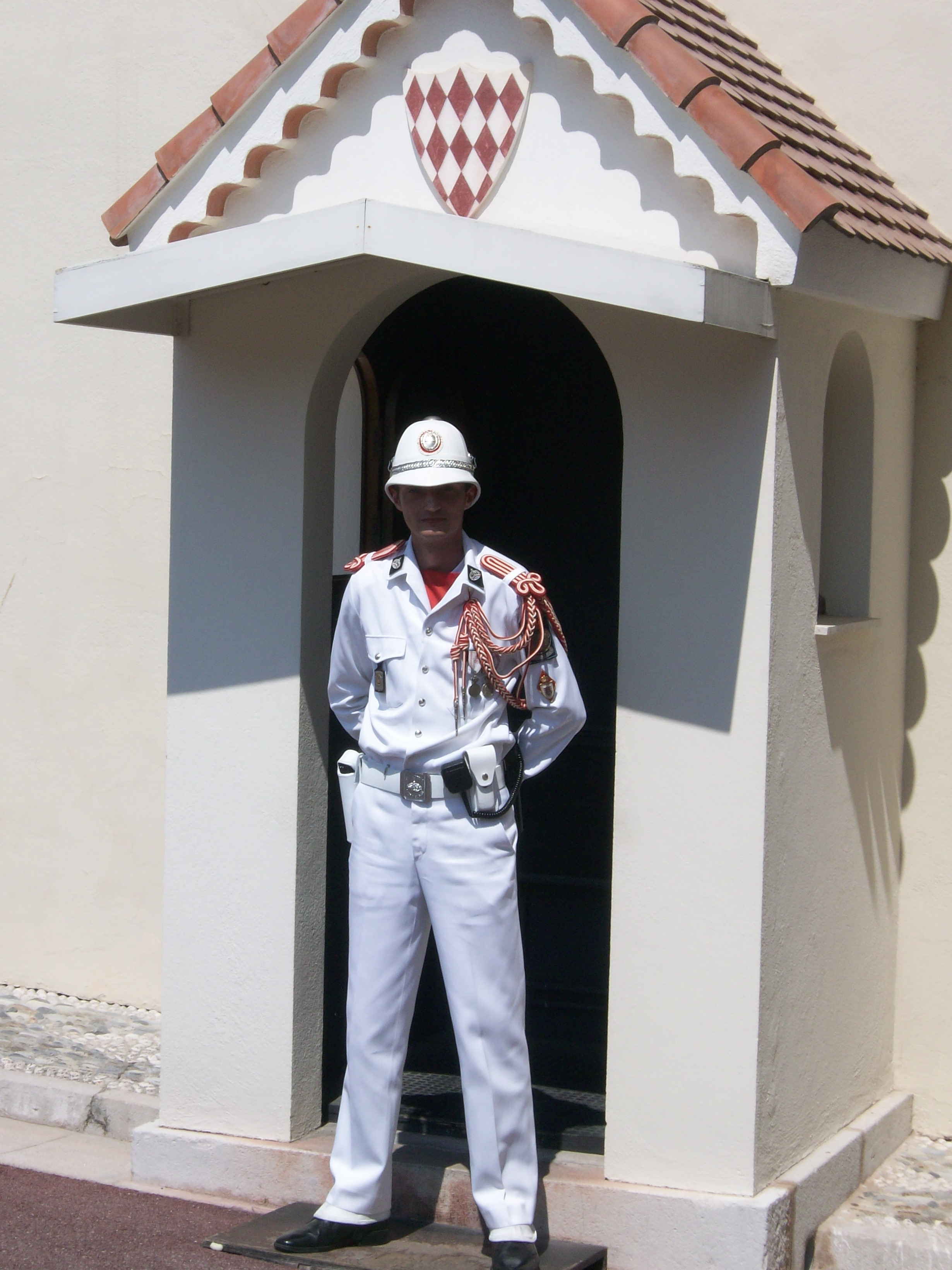 Guard in front the Prince's palace in Monaco